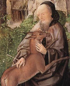 closeup of work titled "Saint Giles and the Hind", oil on oak, National Gallery caption of the picture as a whole stated "The picture probably shows the King of France kneeling with a bishop to ask forgiveness of Saint Giles. A member of the Royal Hunt had shot at Saint Giles' companion hind (deer), but injured the saint, who was protecting her. The tower in the background is probably that of Pontoise."